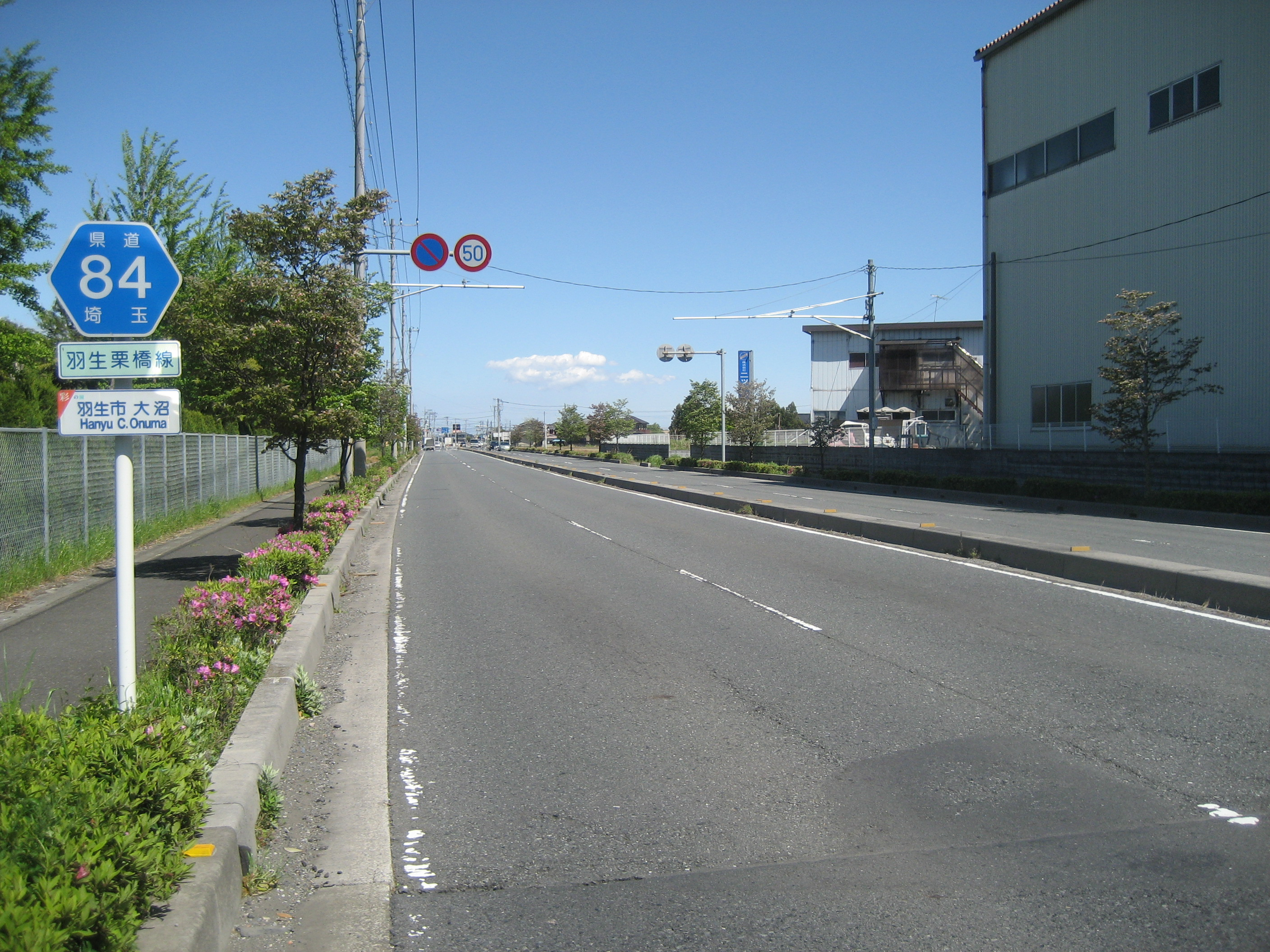 The Saitama Prefectural Road Route 84 in Onuma, Hanyu City